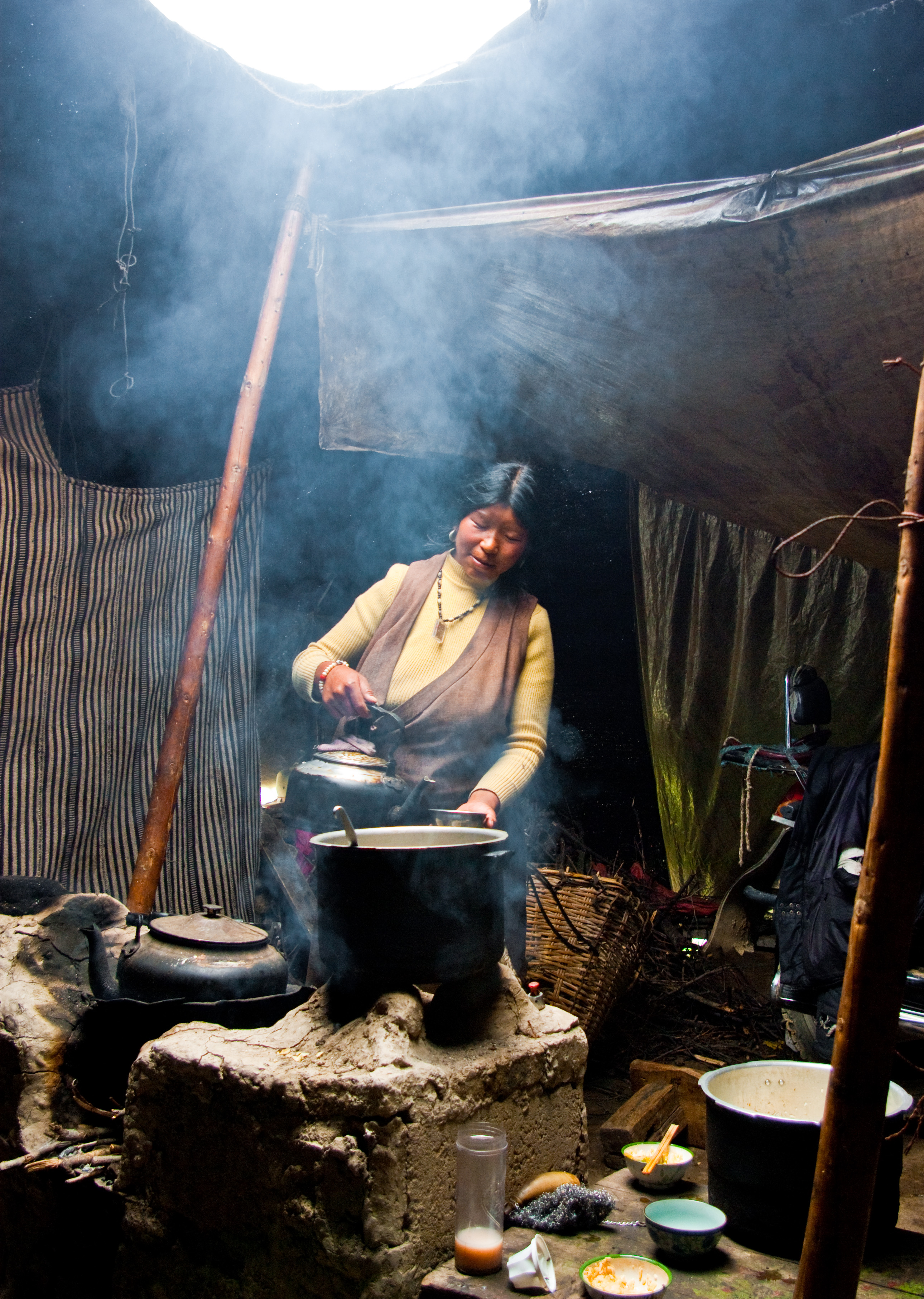 Nomads and tent in Tibet